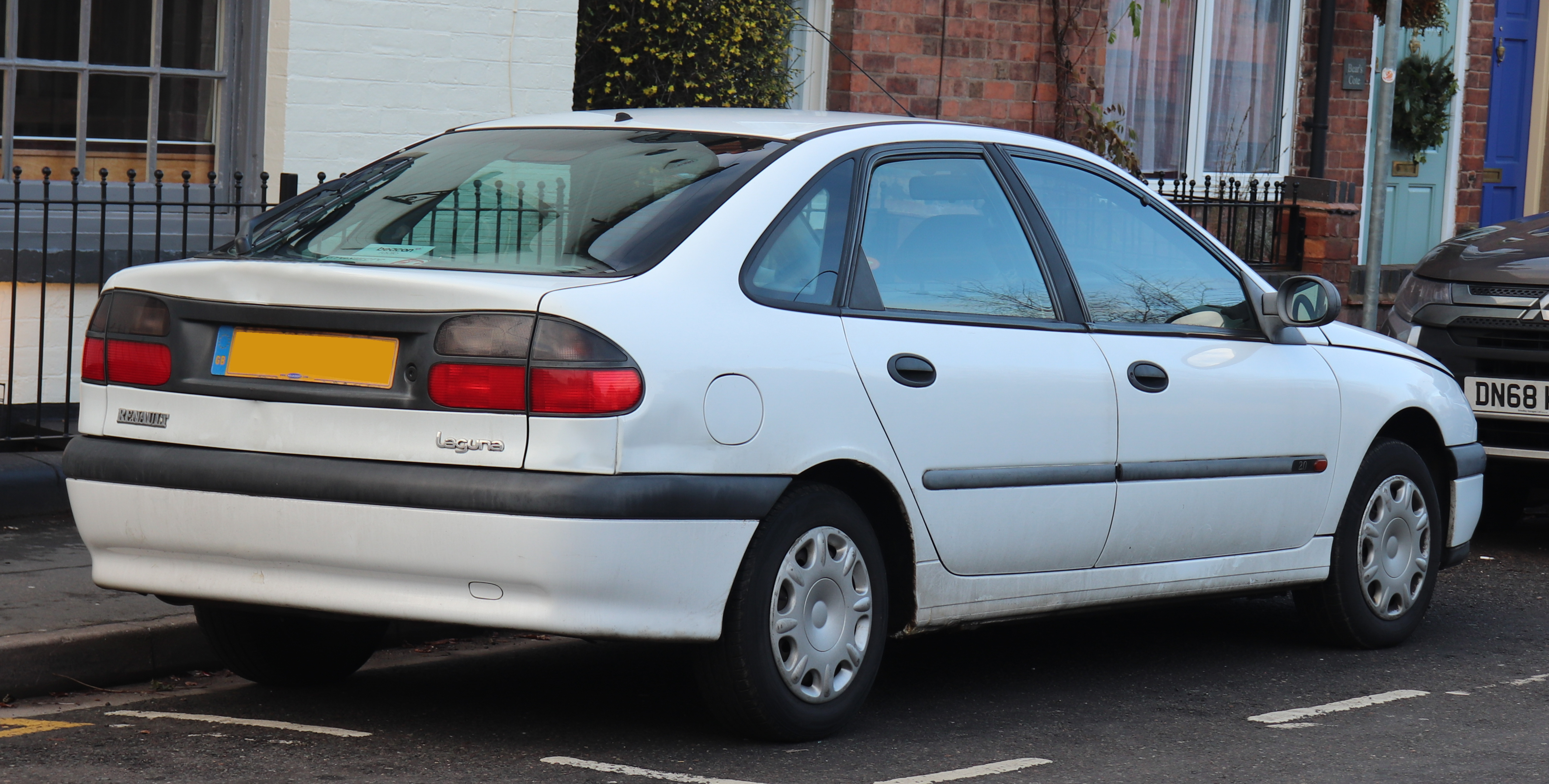 1997 Renault Laguna RT 2.0 Rear Taken in Warwick